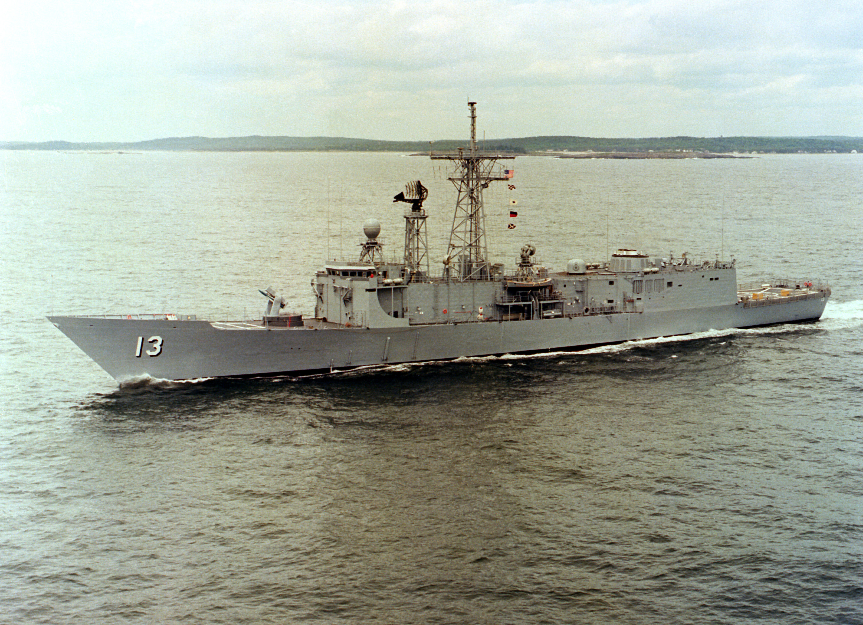 The U.S. Navy guided missile frigate USS Samuel Eliot Morison (FFG-13) underway during sea trials on 10 June 1980.